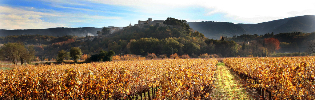 The village of Menerbes with the Luberon in the back, France